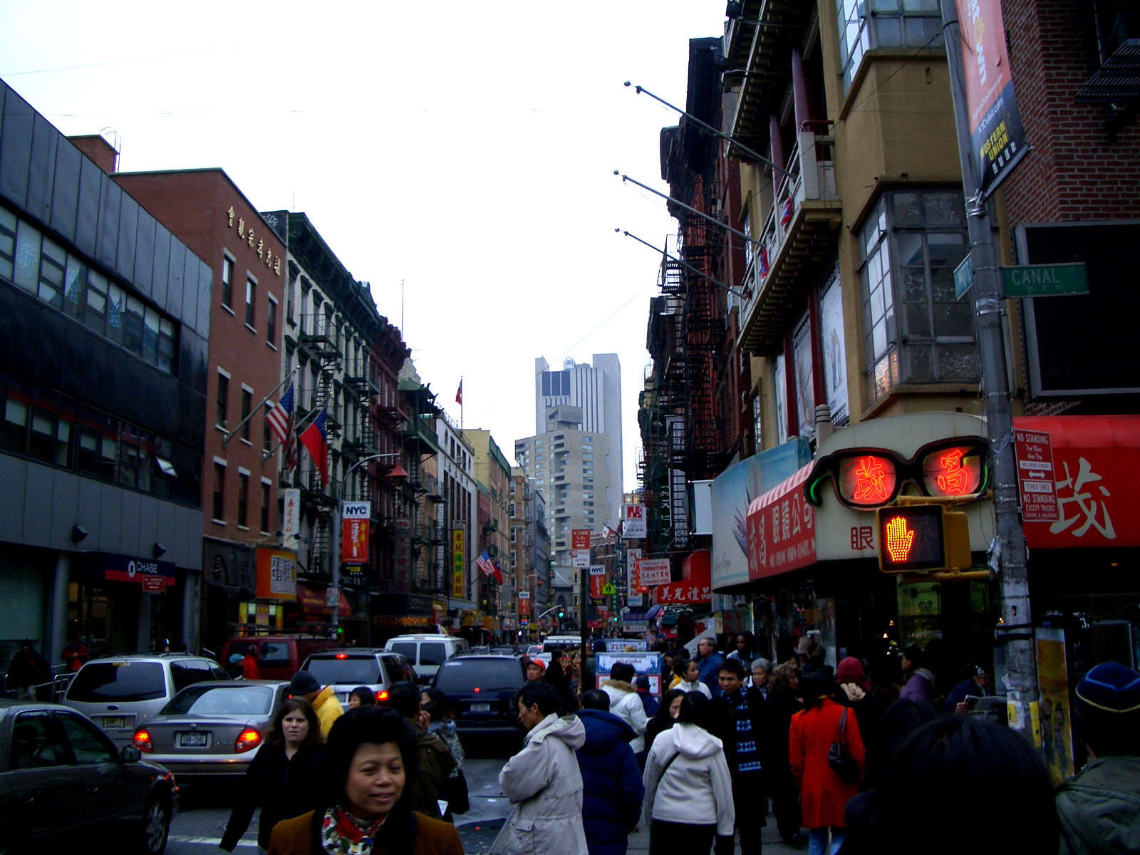 Looking south in the evening from intersection of Mott Street and Canal Street (Manhattan) in Chinatown, Manhattan, New York City. 375 Pearl Street in background.